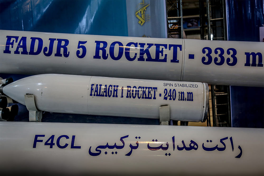 Several Iranian artillery rockets were on display during the Eqtedar 40 defence exhibition in Tehran.